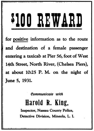 1931 advertisement published by Nassau County Police, Mineola, Long Island, New York, offering reward for witness information in connection with investigation into Death of Starr FaithfullThe work is an advertisement published in the United States in 1931, prior to 1978, by the creator (Nassau County Police Department), without a copyright notice. Due to lack of notice, it is in the public domain.